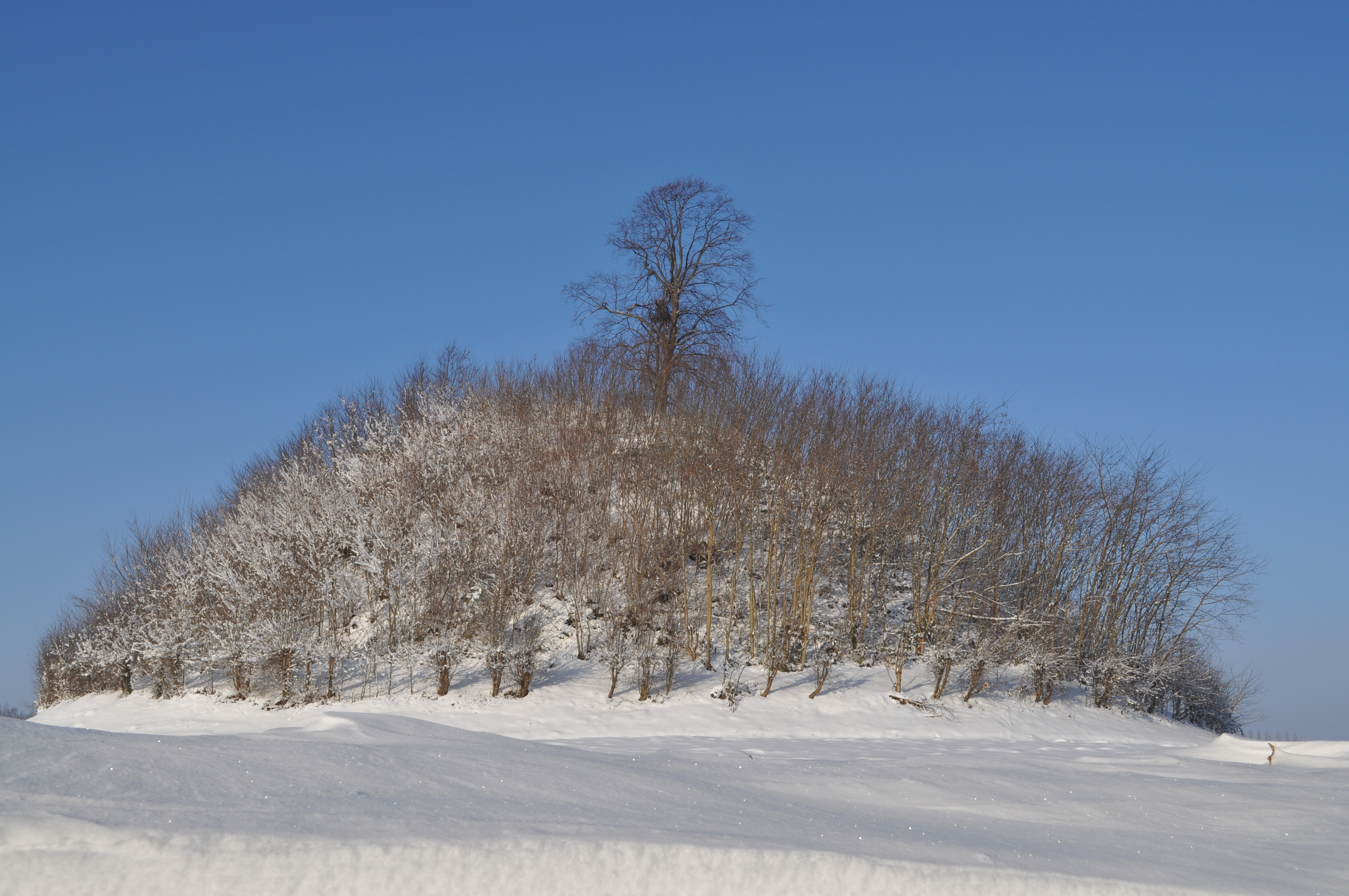 Tumulus of Glimes, taken on the 20th of december 2010